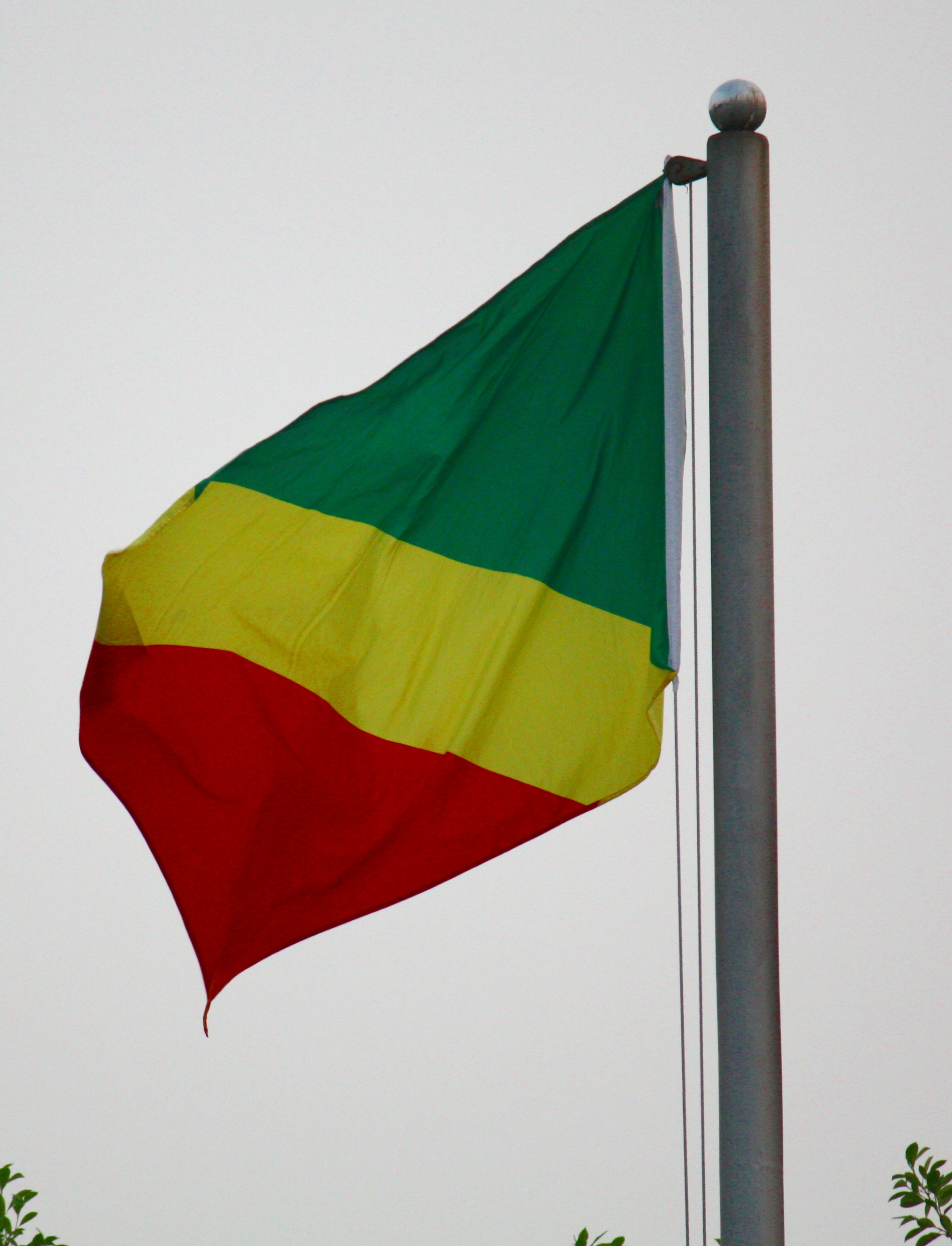 Flag of Republic of the Congo in Shenzhen